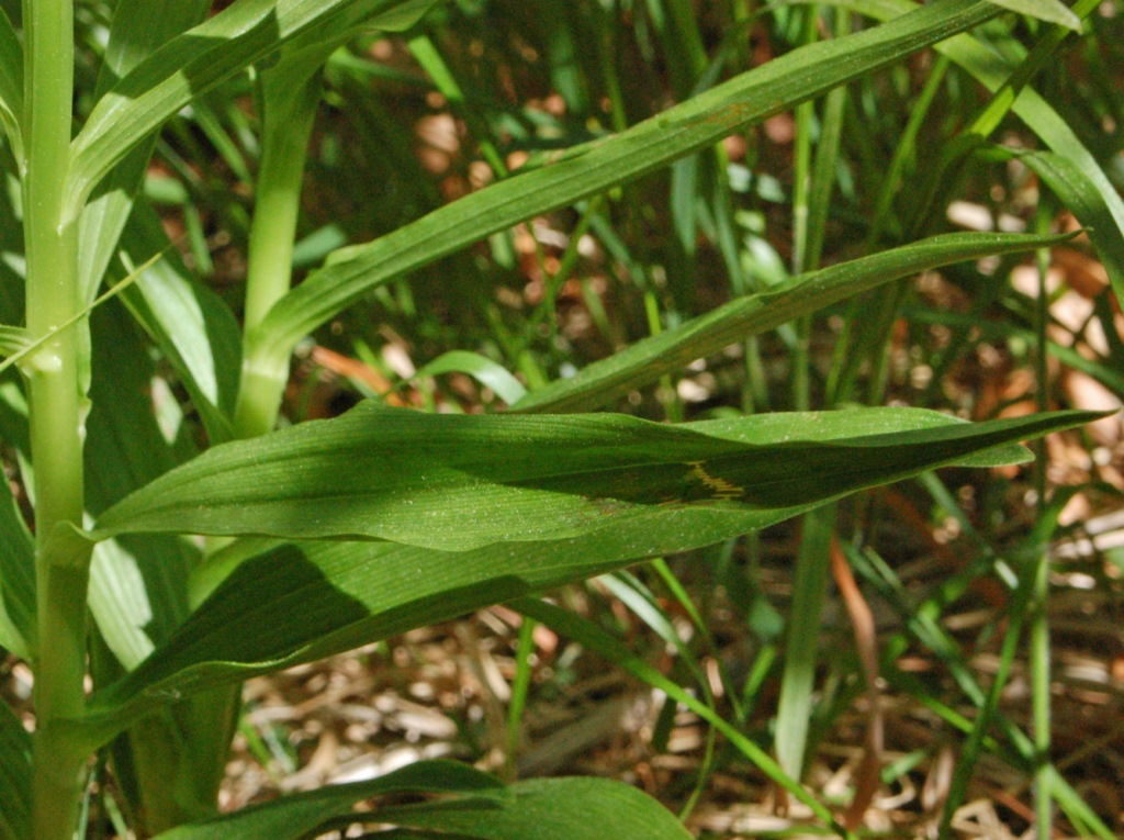 Cephalanthera longifolia - Piani di Praglia, Genova, Italy